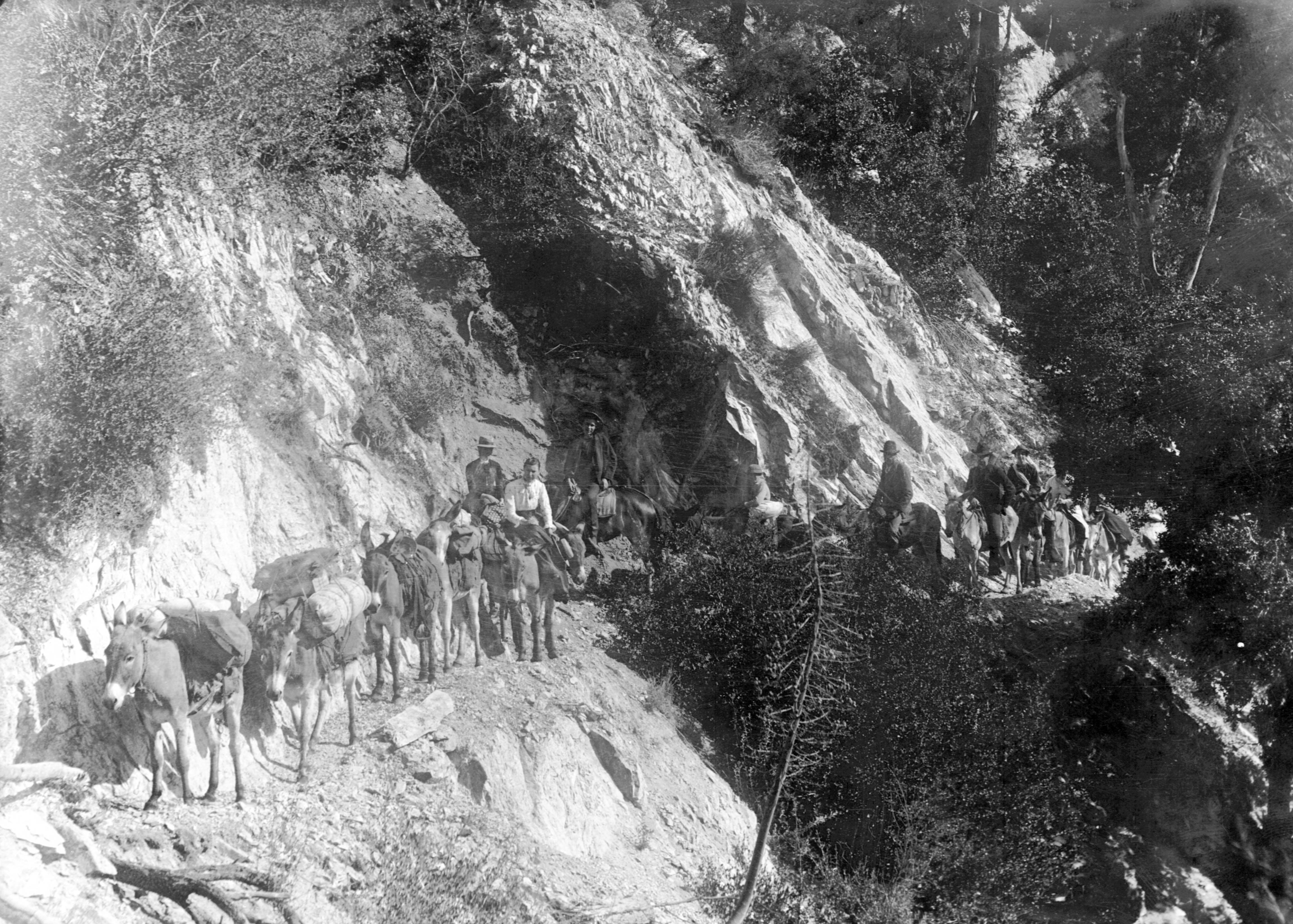 Pack train to Wilson Peak, Sierra Madre Trail, ca.1900 Photograph of a pack train to Wilson Peak, Sierra Madre Trail, ca.1900. A line of more than a dozen burros carry people and bundles of gear along a narrow ledge across the brush-covered steep rocky slope of the mountain. Call number: CHS-4718 Legacy record ID: chs-m17030; USC-1-1-1-14244 Photographer: James, George Wharton Filename: CHS-4718 Coverage date: 1895/1905 Part of collection: California Historical Society Collection, 1860-1960 Type: images Part of subcollection: Title Insurance and Trust, and C.C. Pierce Photography Collection, 1860-1960 Repository name: USC Libraries Special Collections Accession number: 4718 Microfiche number: 1-84-24 Archival file: chs_Volume98/CHS-4718.tiff Repository address: Doheny Memorial Library, Los Angeles, CA 90089-0189 Geographic subject (country): USA Format (aacr2): 2 photographs : glass photonegative, photoprint, b&w ; 17 x 22 cm. Rights: Digitally reproduced by the USC Digital Library; From the California Historical Society Collection at the University of Southern California Subject (adlf): mountains Project: USC Repository Identifying number: unidentified no: James-901 Contributing entity: California Historical Society Date created: 1895/1905 Publisher (of the digital version): University of Southern California. Libraries Format (aat): photographic prints; photographs Geographic subject (state): California Subject (file heading): Natural features -- Mountains -- Mount Wilson Format: glass plate negatives Geographic subject: mountains: Mount Wilson Access conditions: Send requests to address or e-mail given. Phone (213) 821-2366; fax (213) 740-2343. Geographic subject (county): Los Angeles Subject (lcsh): Mountains